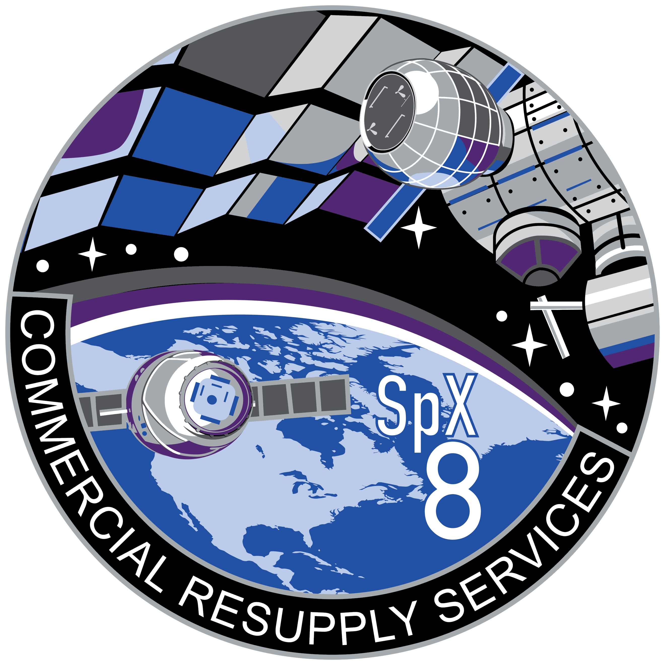 NASA's insignia for SpaceX's Commercial Resupply Services-8 (CRS-8) mission to the International Space Station (SpX-8).